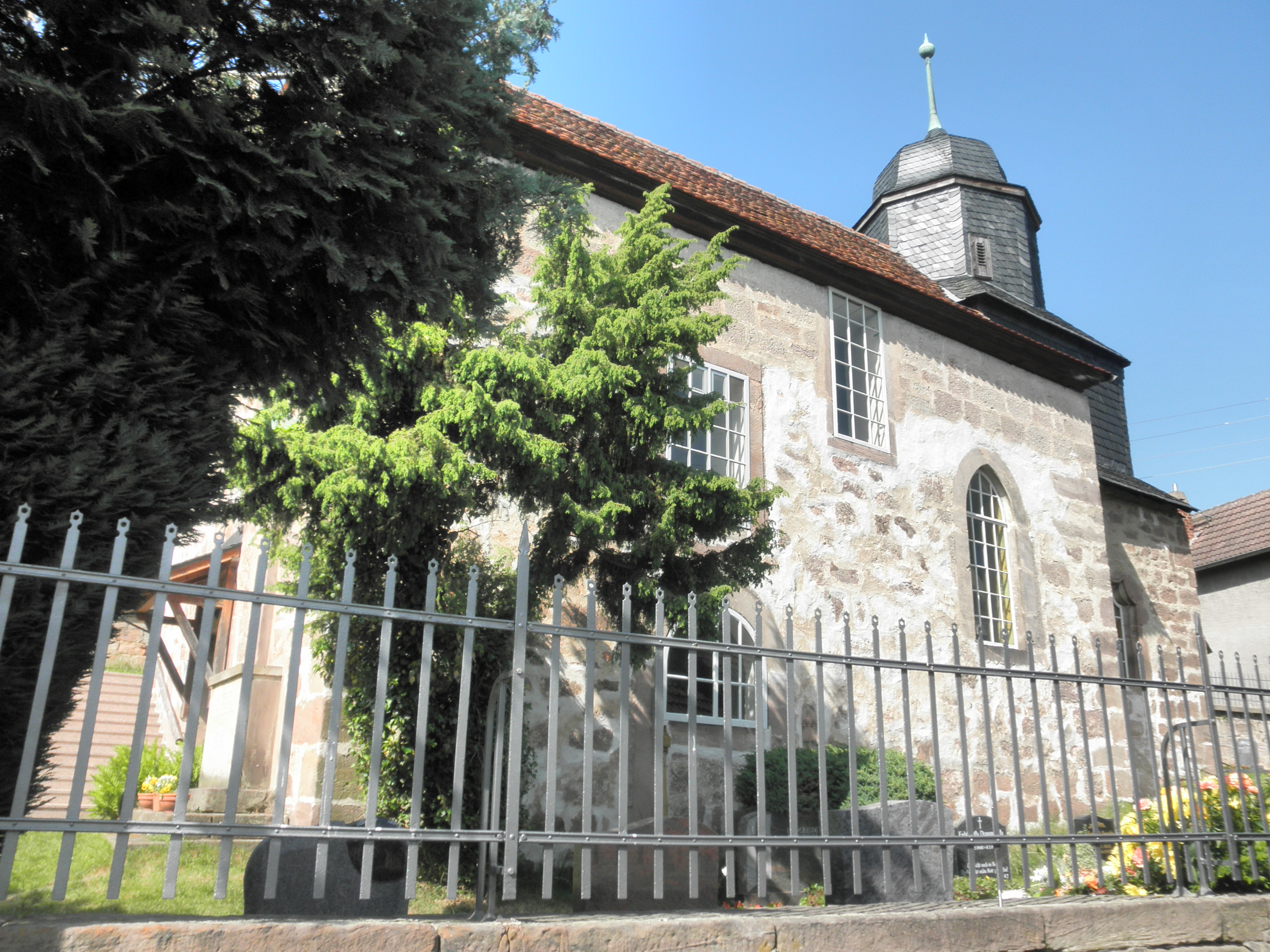 Church in Bibra (bei Jena) in Thuringia